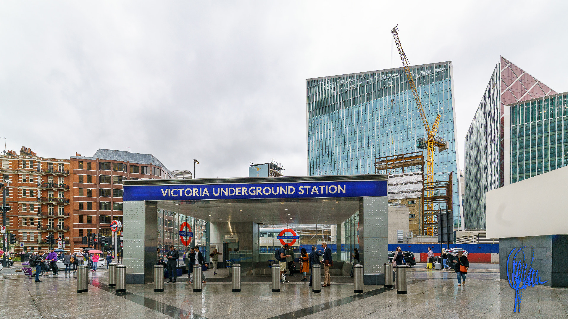 500px provided description: Meltingpoint [#old ,#rain ,#urban ,#architecture ,#cityscape ,#london ,#england ,#underground ,#station ,#modern ,#tube ,#united kingdom]